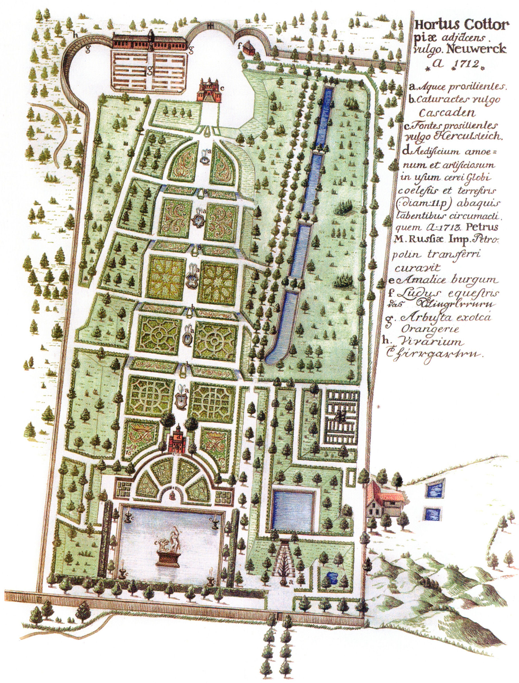 Map of Hortus Gottorpiae, copper encraving, coloured